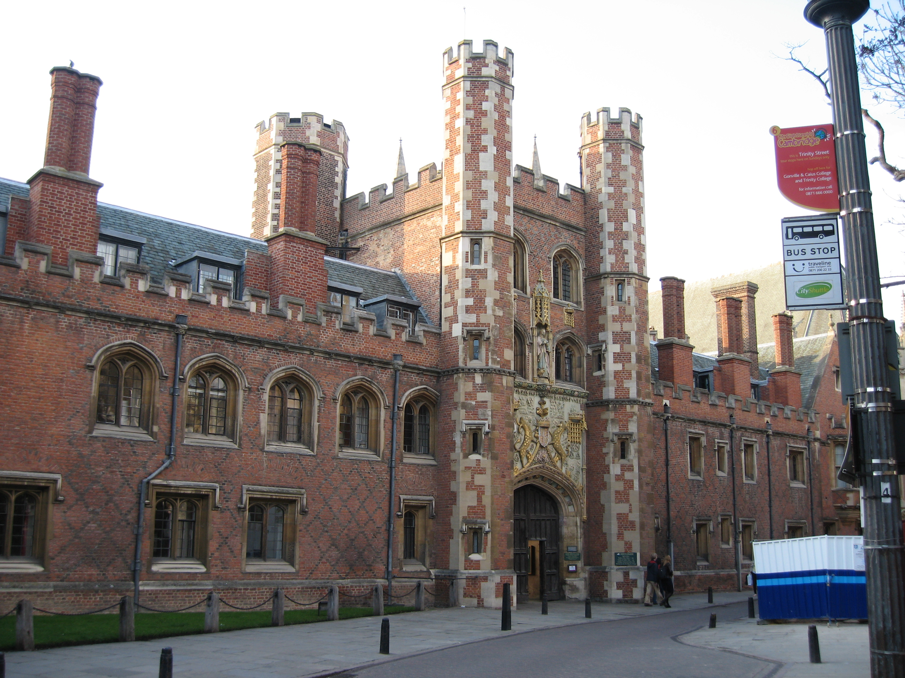 St John's College, Cambridge, 2008-03-31 (2)